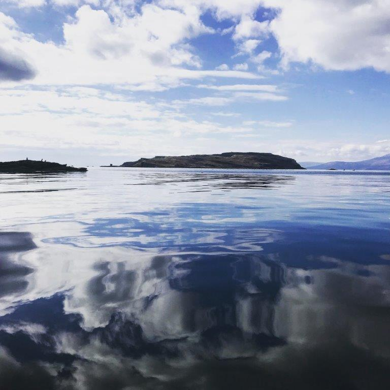 View of the small islands near Millport called The Eileans